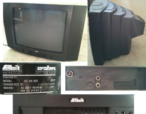 Picture of an Eblit TV manufactured in Israel during the 1990's. As part of the Elbit group's failed attempt to diversify into the consumer electronics buisness